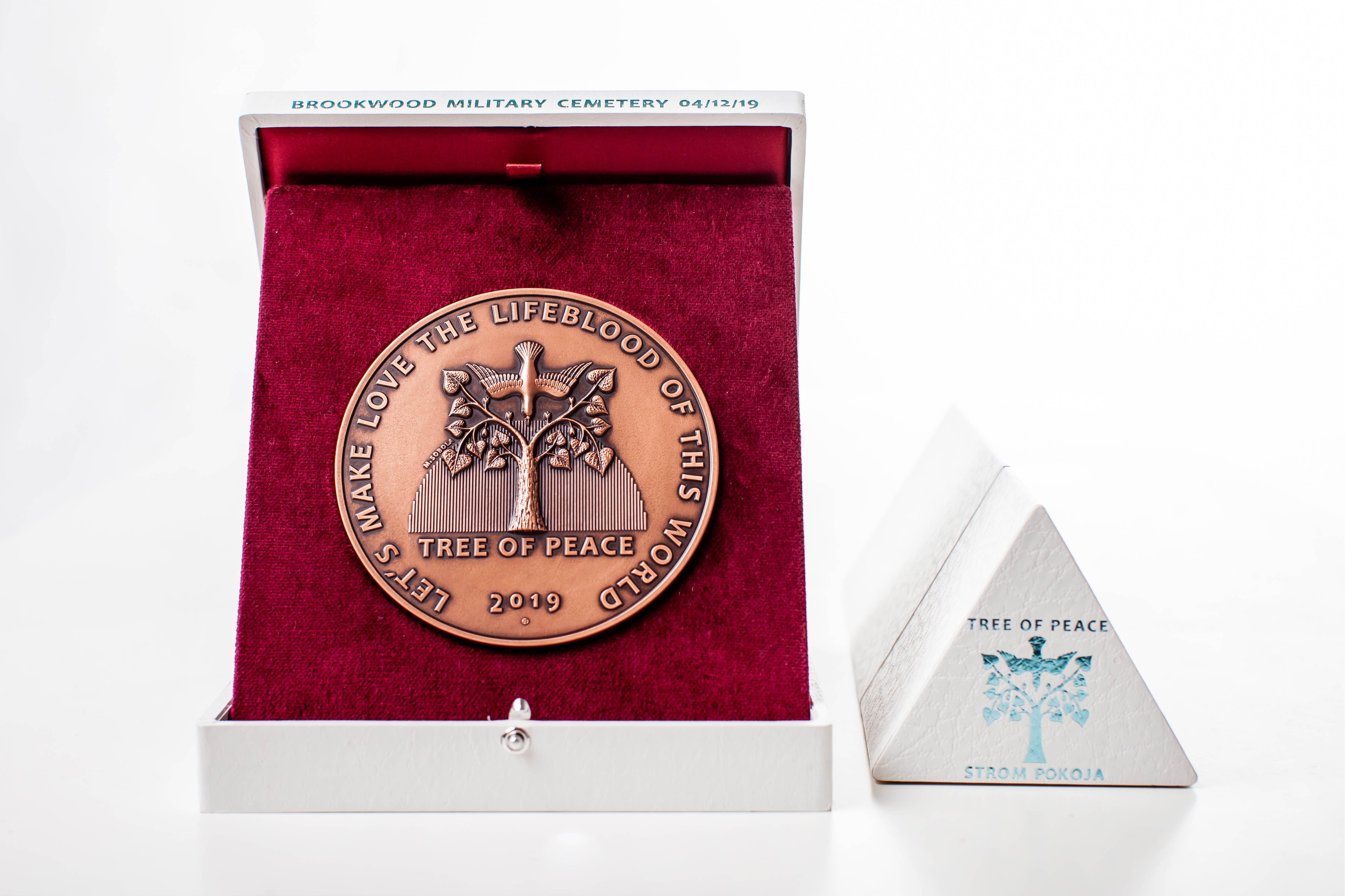 Tree of Peace Memorial Plaque with case for decree